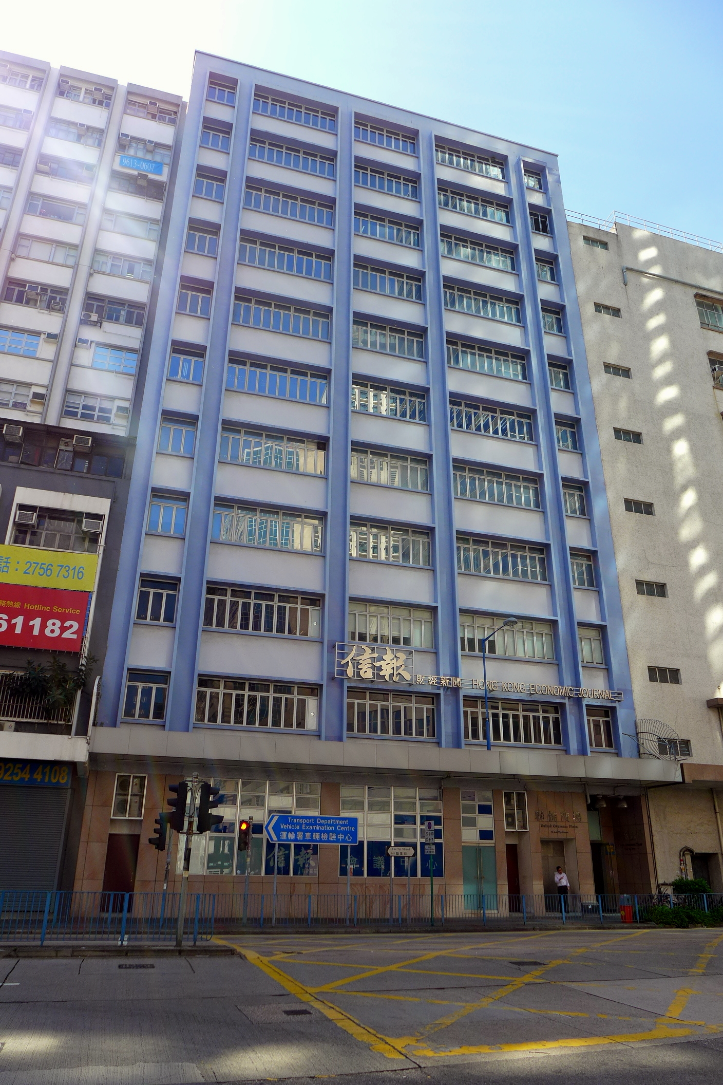 United Overseas Plaza 聯僑廣場